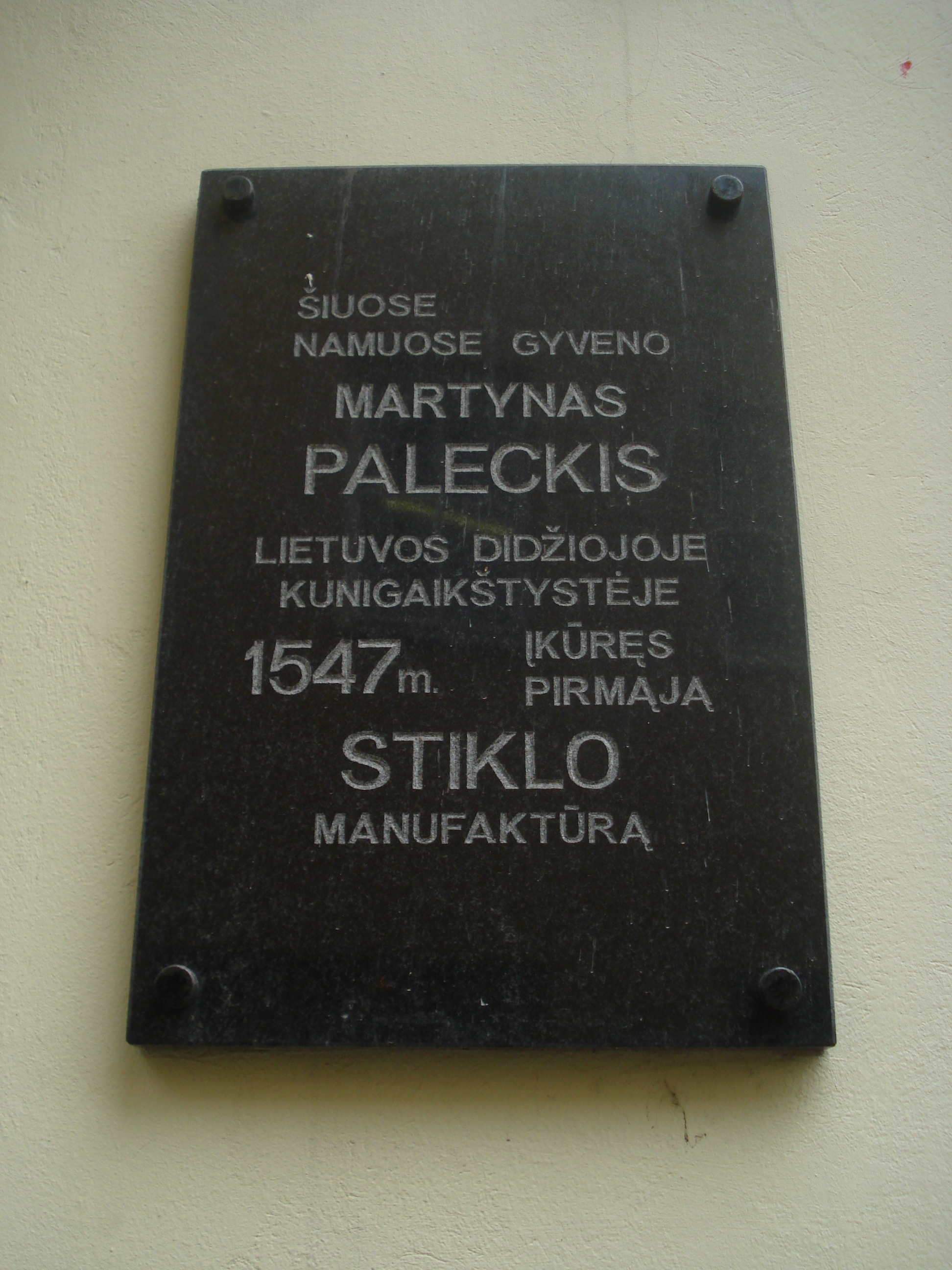 Martynas Paleckis, Lithuanian glass manufacturer, memorial plaque in Vilnius (Stikliu g. 5).